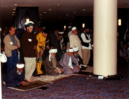 Muslim men in prayer during the International Islamic Unity Conference at the Westin Bonaventure Hotel in Los Angeles.Shaykh Hisham Kabbani and Shaykh Nazim al-Haqqani are pictured seated in the front row.